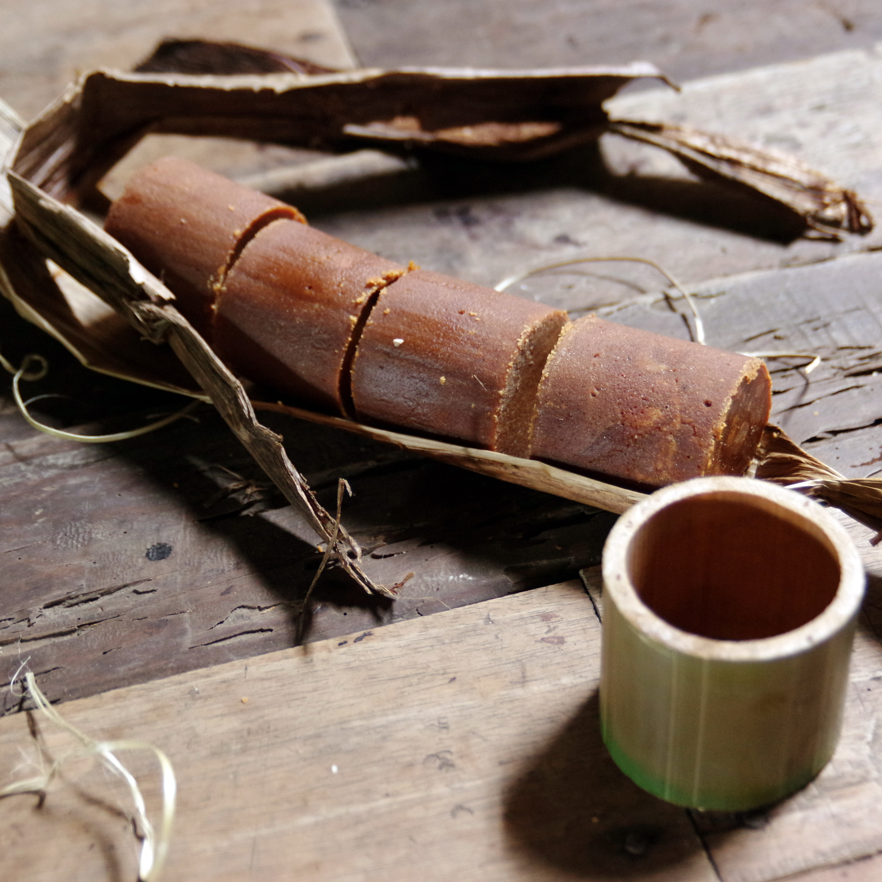 Produk gula aren oleh masyarakat diberi merek dagang Sarinira cair & Sarinira gandu sumber poto : Ade Zaenal Mutaqin, 0251-969-2000 / 0821-1005-7000